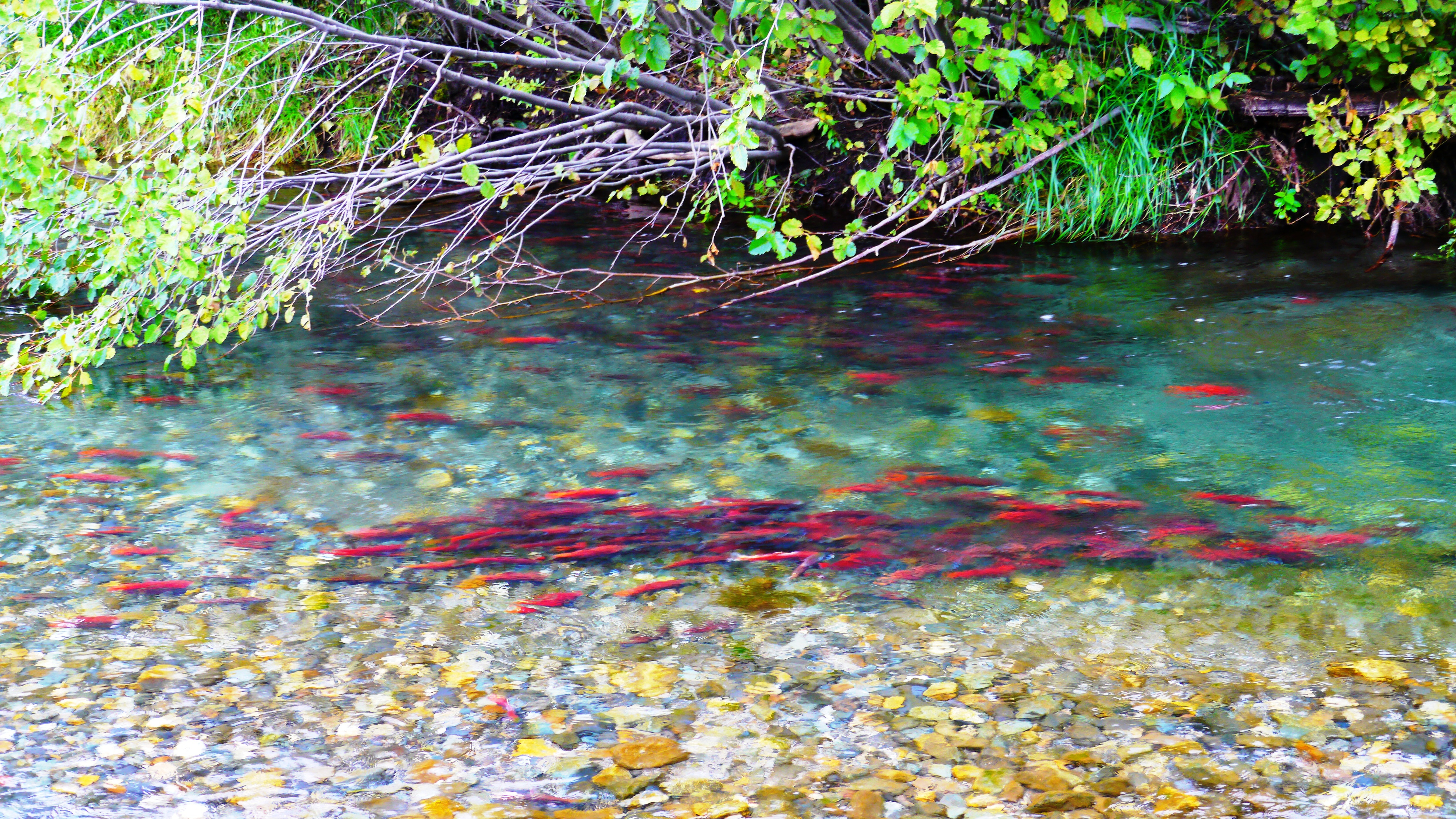 Wallowa Lake State Park is a state park located in northeast Oregon in the United States. It is at the southern shore of Wallowa Lake, near the city of Joseph in Wallowa County. The town of Wallowa Lake is situated next to the park. Wallowa Lake State Park has a variety of activities, including hiking wilderness trails, horseback riding, bumper boat, canoeing, miniature golf, and a tramway to the top of one of the mountains (a rise of 3,700 feet). Wildlife is abundant in the area.